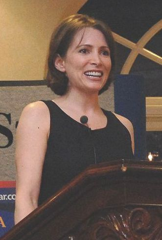 Shannon Miller at the Star Scholars Banquet at Spanish Hills Country Club in Camarillo, California sponsored by the Ventura County Star.